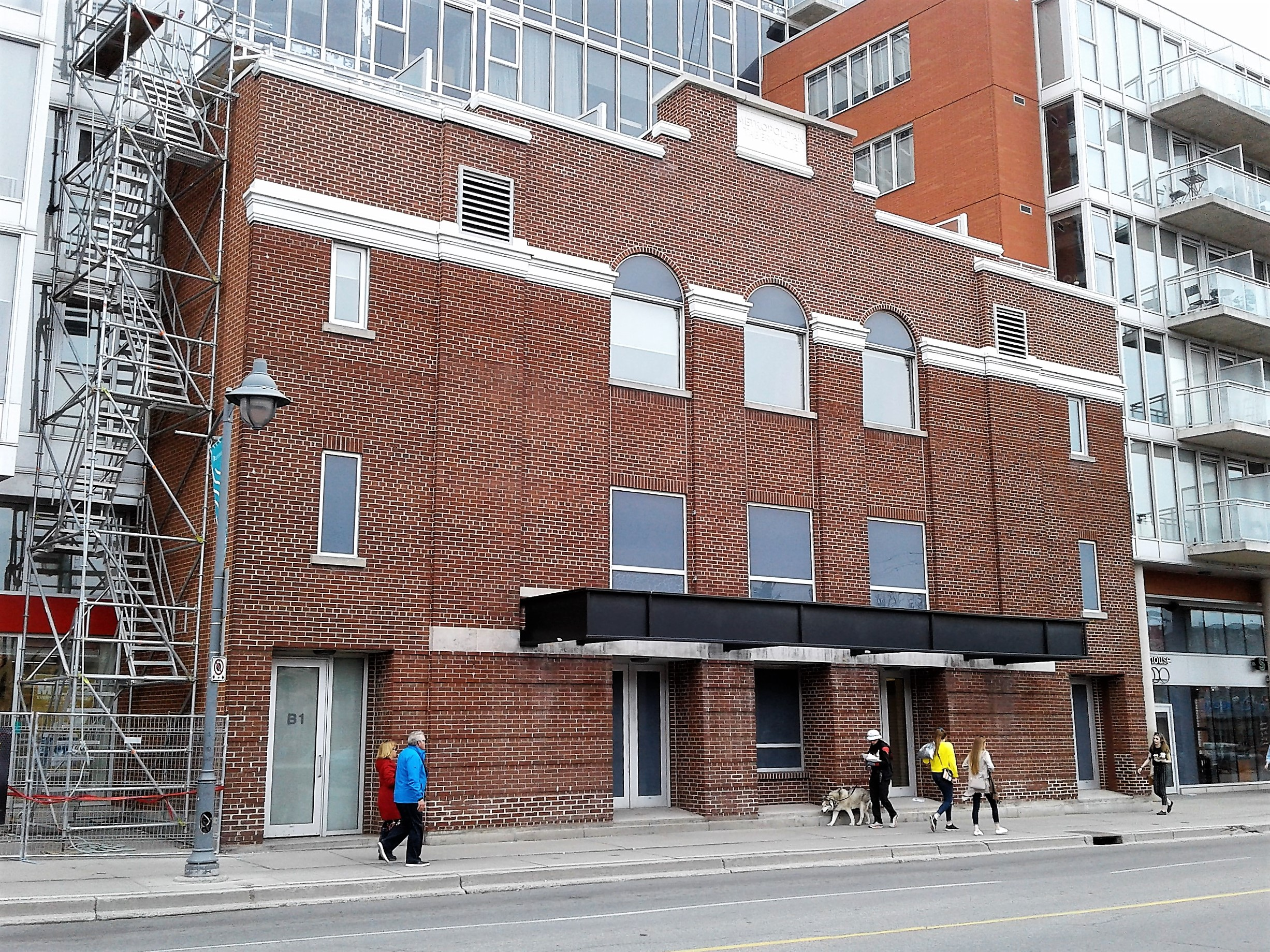 Front of the former Metropolitan Bible Church at 453 Bank Street, now integrated at the new Central 1 condominium development.